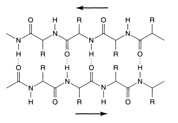 Diagram of beta-Pleated sheet structure of protein User talk:G3pro#Image source